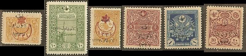 Stamps of Turkey in Asia (Anatolia). Issue of the Nationalist Government. Turkish stamps of 1915-20 overprinted. The overprints on Sc Nos. 64-77 read “Adana December 1st, 1921.” This issue commemorated the withdrawal of the French from Cilicia. On No. 71 the lines of the overprint are further apart than on Nos. 68-70 and 73-74. Withdrawal of the French from Cilicia. Forged overprints exist.